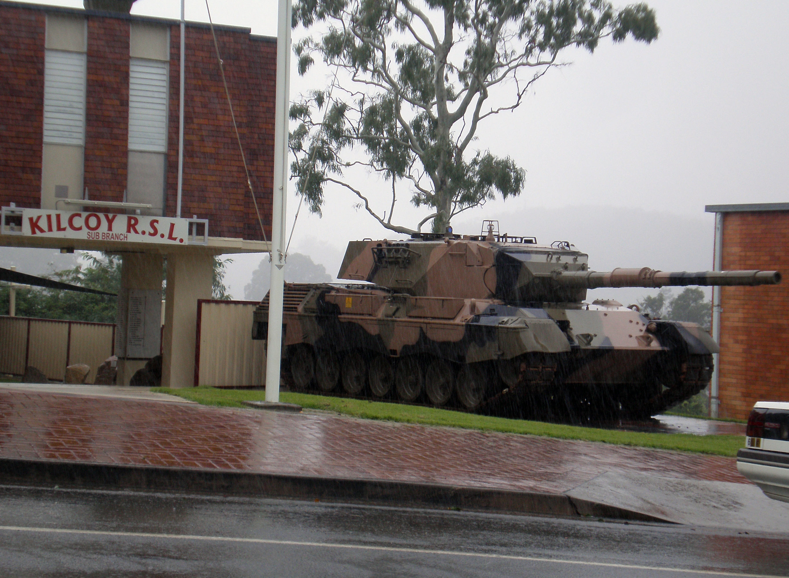 A former Australian Army Leopard 1 tank on display at Kilcoy RSL, Queensland, photographed during downpour.